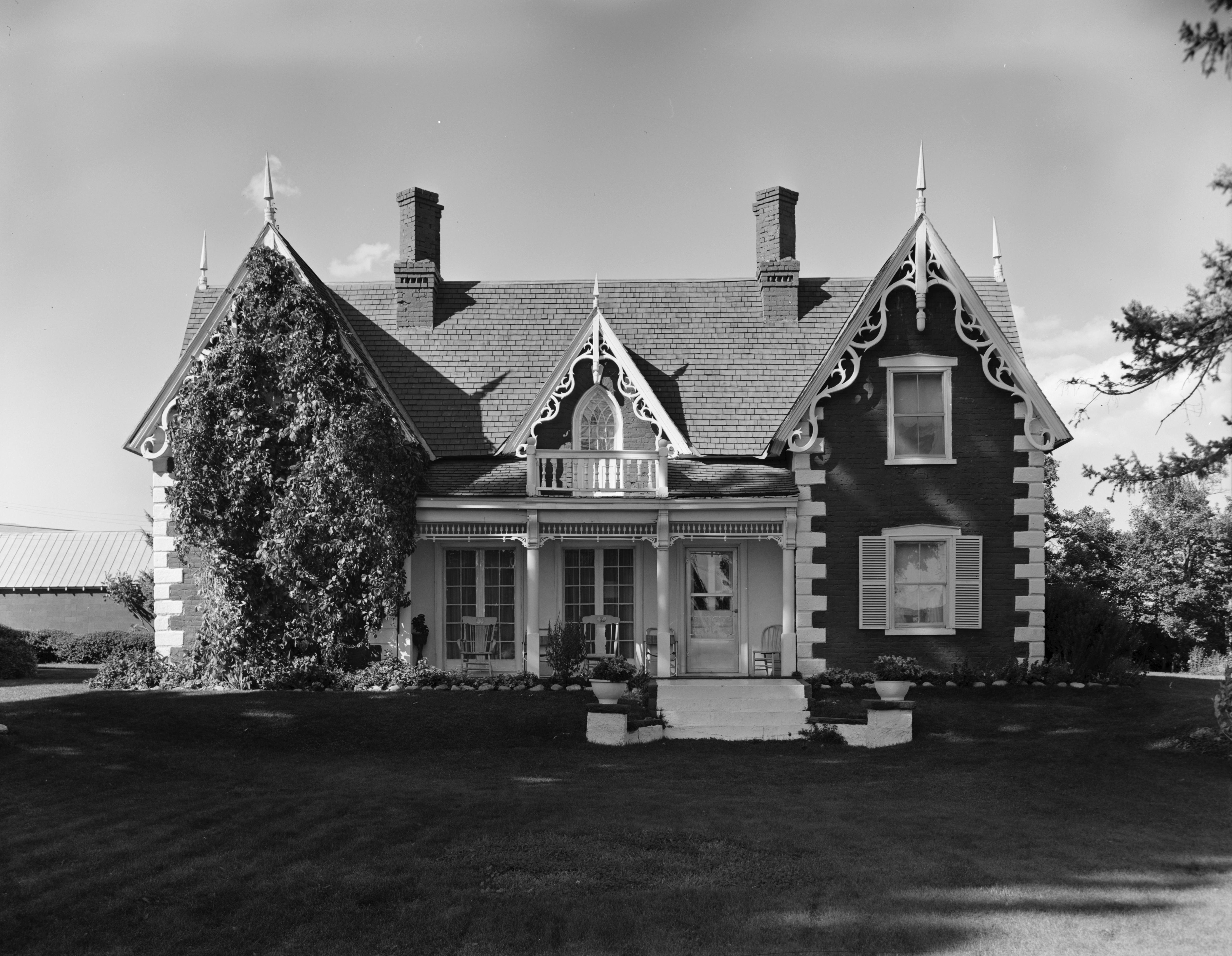 Front of the Watkins-Coleman House, located at 5 E. Main Street in Midway, Utah, United States. Built in 1869, it is listed on the National Register of Historic Places.